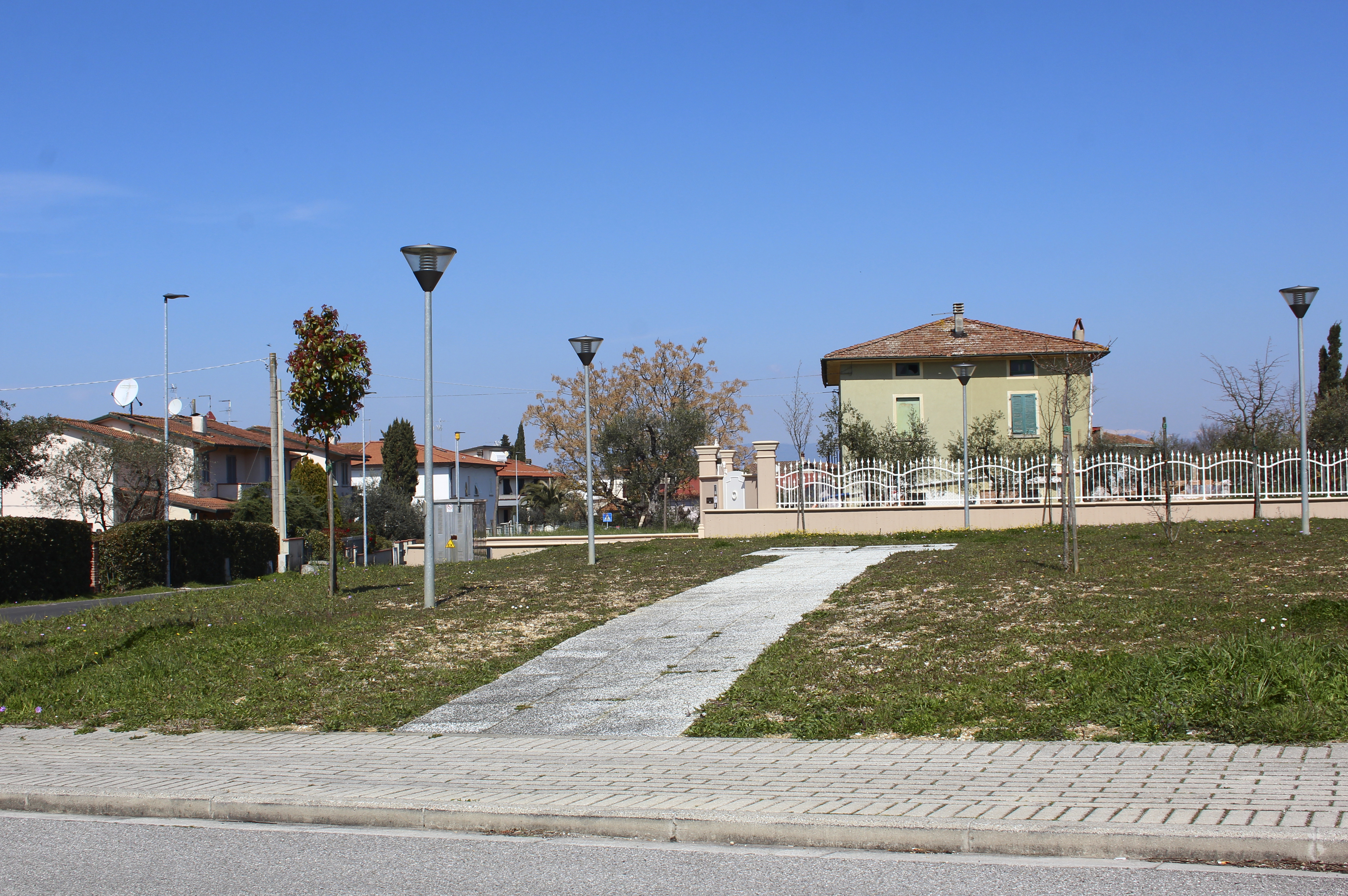 Cerretti, hamlet of Santa Maria a Monte, Province of Pisa, Tuscany, Italy